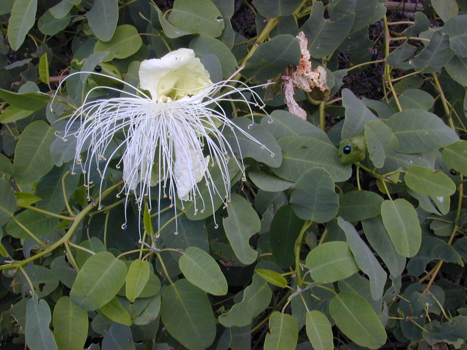 Capparis sandwichiana (flower and leaves). Location: Maui, Wailea 670